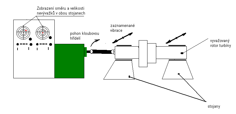 draft of balancing machine